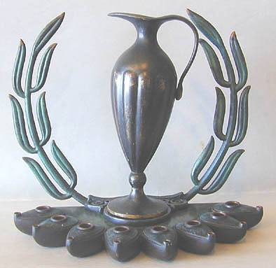 Bronze Art Deco laurel branch oil-burning menorah designed by the sculptor and industrial designer Maurice Ascalon and manufactured by his Pal-Bell company in Tel-Aviv, Israel circa 1948.